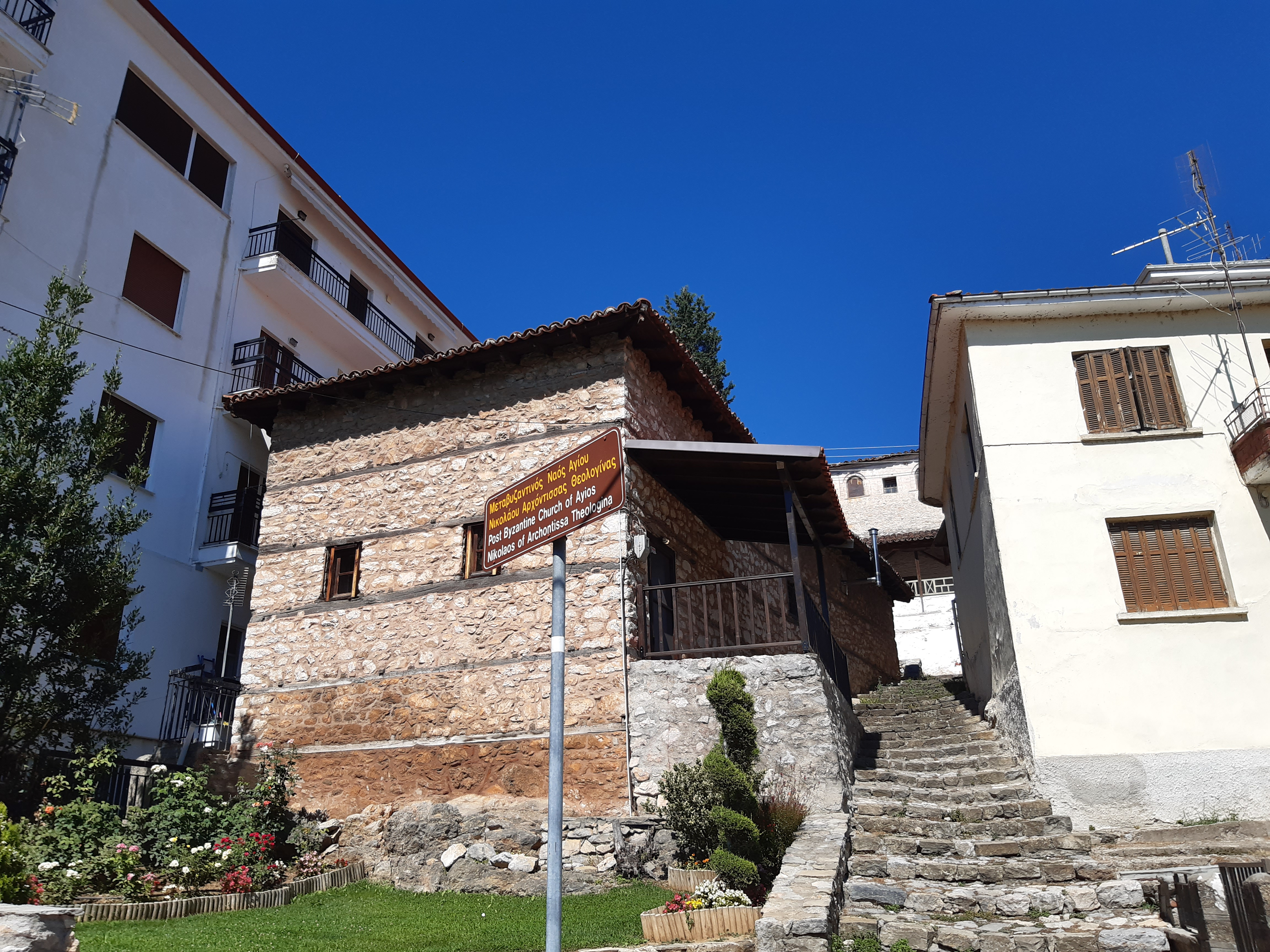 Saint Nicholas of Theologia Church